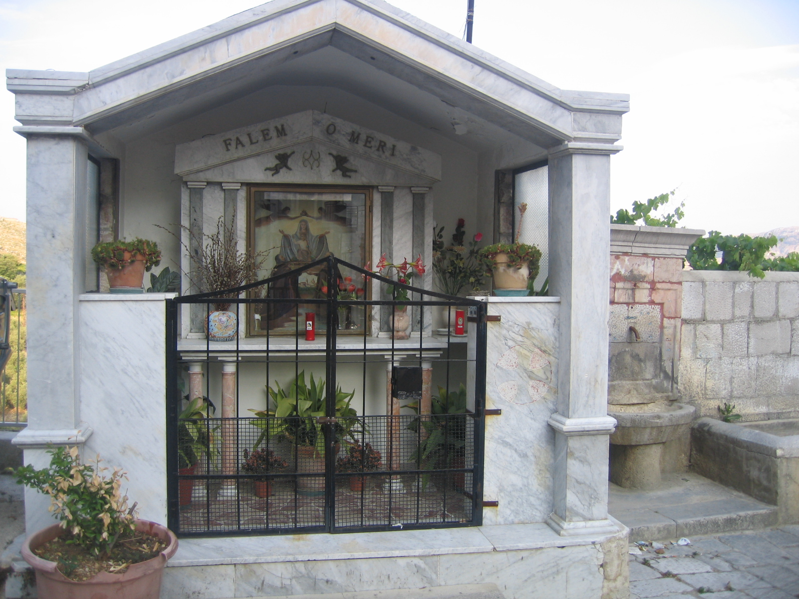 Chapel dedicated to the Blessed Mary, with written in arberisht language "Falem o Mërì".